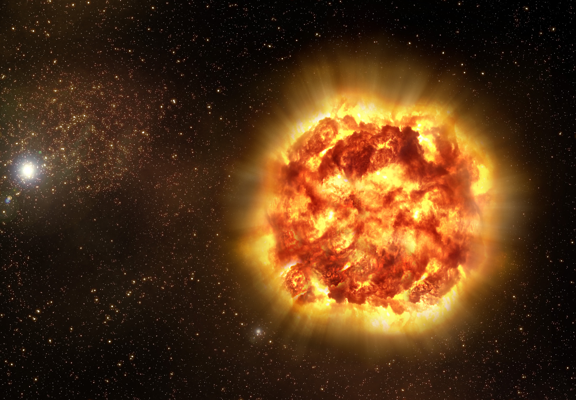 Artist's impression of how Type Ia supernovae may look like as revealed by spectro-polarimetry observations. The outer regions of the blast cloud is asymmetric, with different materials found in 'clumps', while the inner regions are smooth. Using observations of 17 supernovae made over more than 10 years with ESO's Very Large Telescope and the McDonald Observatory's Otto Struve Telescope, astronomers inferred the shape and structure of the debris cloud thrown out from Type Ia supernovae. Such supernovae are thought to be the result of the explosion of a small and dense star — a white dwarf — inside a binary system. As its companion continuously spills matter onto the white dwarf, the white dwarf reaches a critical mass, leading to a fatal instability and the supernova. But what sparks the initial explosion, and how the blast travels through the star have long been thorny issues. The study shows that the outer regions of the blast cloud is asymmetric, with different materials found in 'clumps', while the inner regions are smooth.